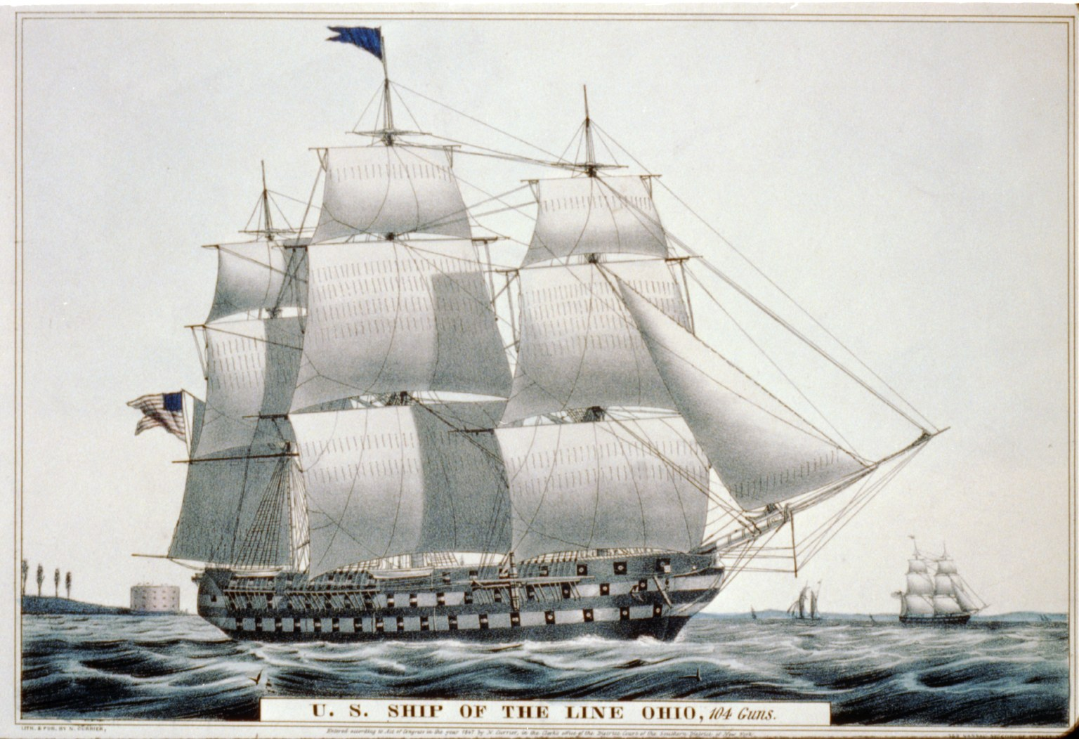 U.S. ship of the line Ohio: 104 guns. New York: Published by N. Currier. Currier & Ives. A size. Lithograph print, hand-colored. Currier & Ives : a catalogue raisonné / compiled by Gale Research. Detroit, MI : Gale Research, c1983, no. 6848